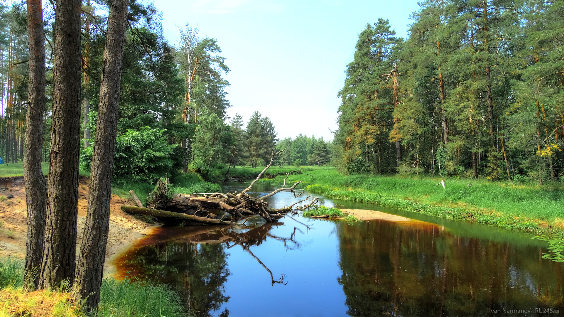 Nerskaya river flows in eastern Moscow Region. Quiet beautiful scenery around with a huge pine trees that can't be found so frequently around other rivers here.